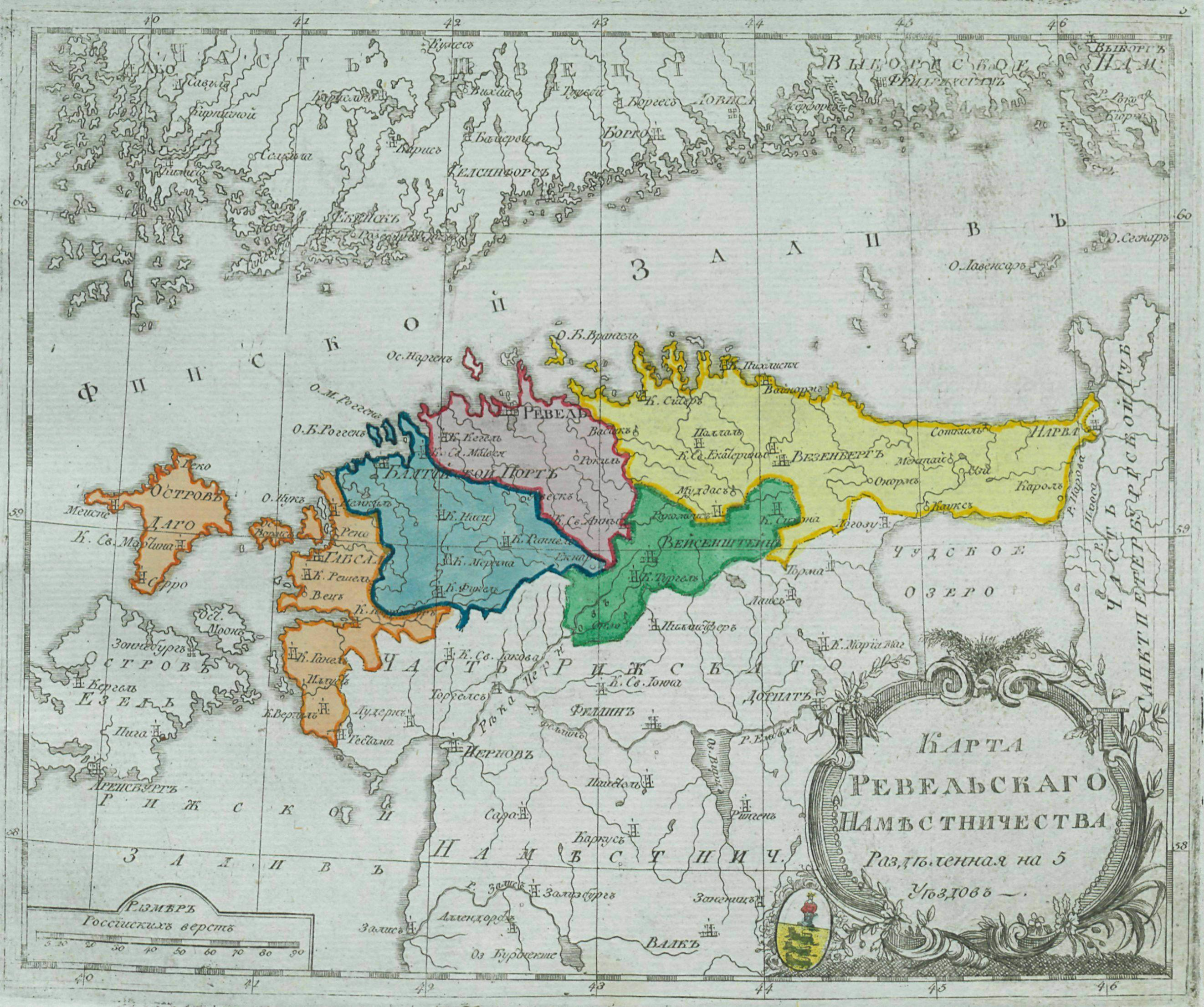 Small atlas of the Russian Empire (1792). Map of Reval Namestnichestvo (map 4).